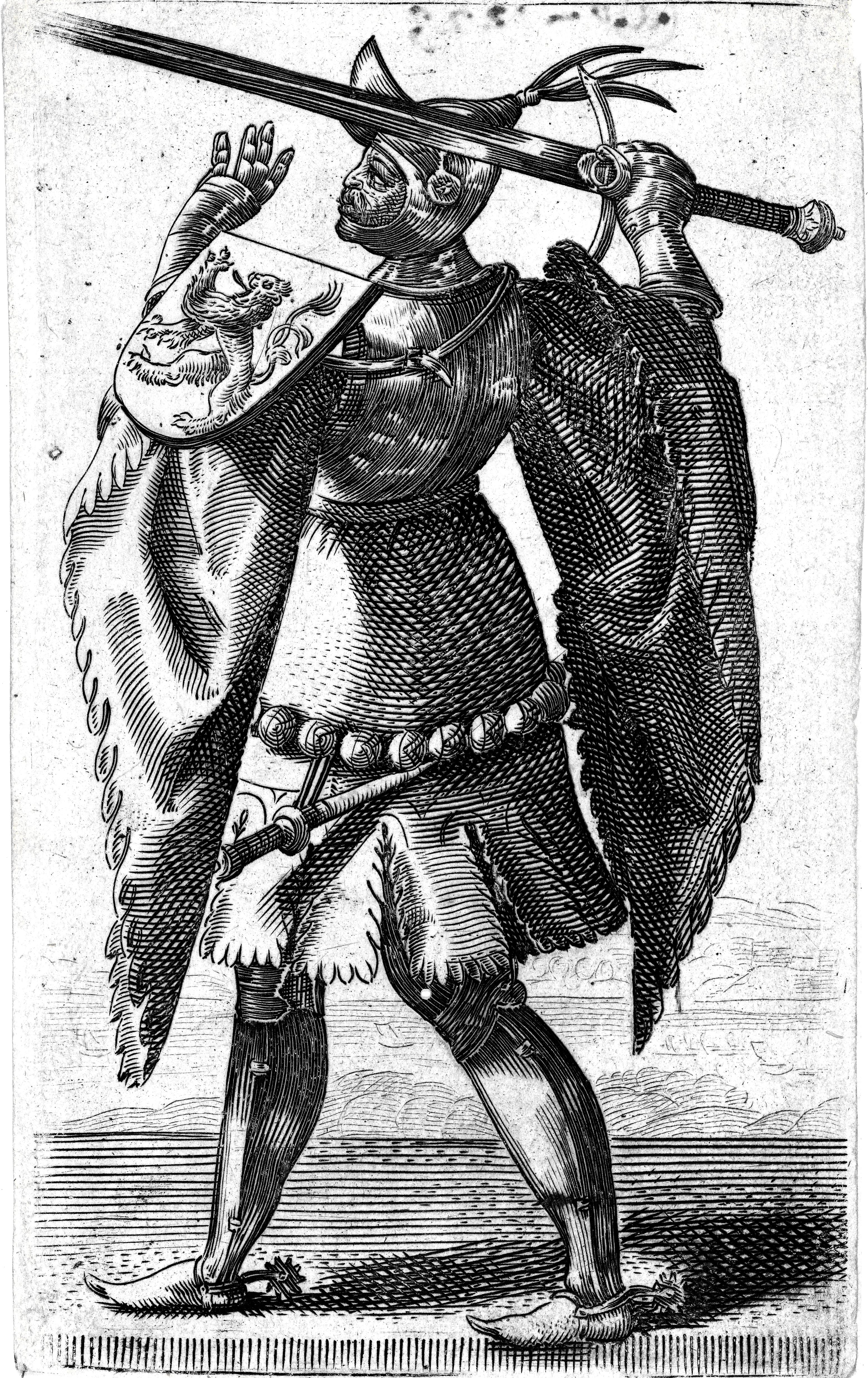 Portrait of Floris IV, Count of Holland, standing in a harness with on his shoulder the coat of arms of Holland, and in his hand a sword. Print from a series of 36 prints with full length portraits of counts and countesses of Holland.